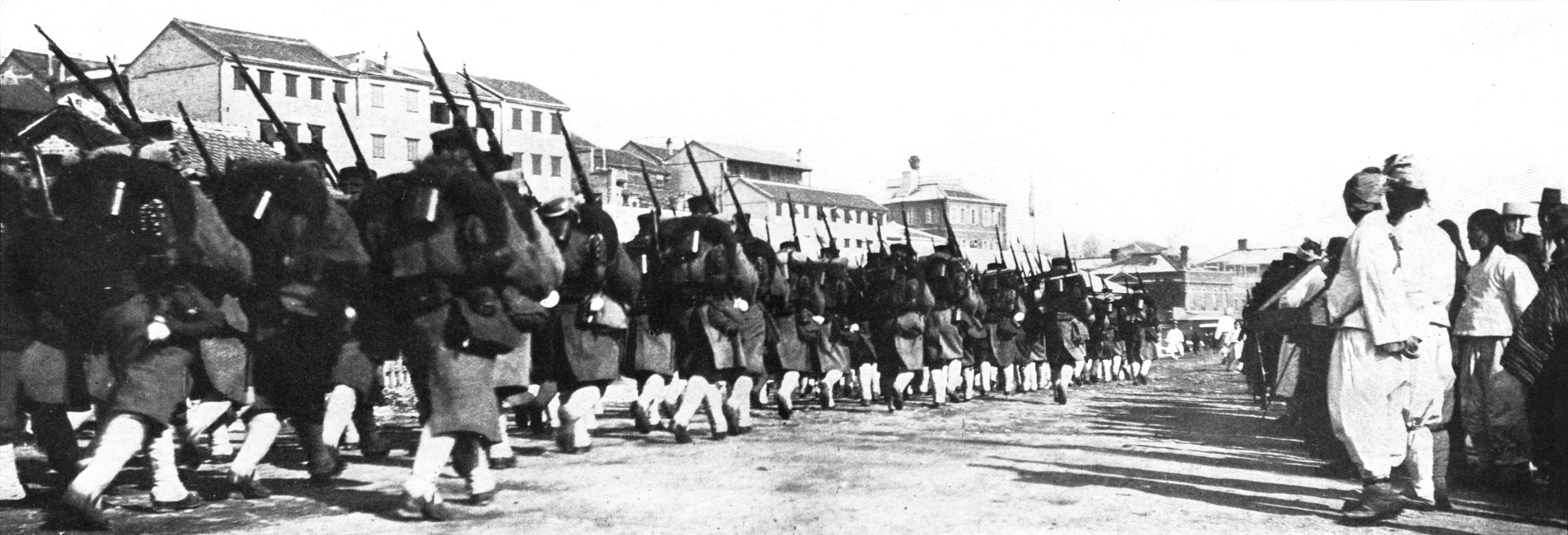 JAPANESE INFANTRY MARCHING THROUGH THE MAIN STREET OF SEOUL